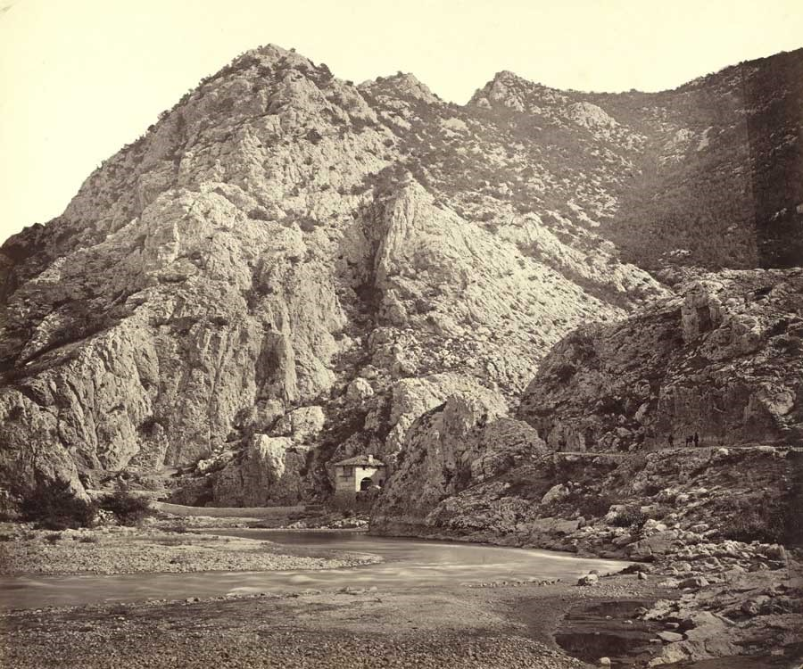 Josef Székely VUES IV 41095 Demir Kapi: gorge of the Vardar seen from the north. October 1863